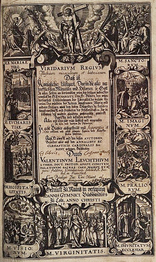 Buchtitelblatt von Valentin Leucht (1550-1619), katholischer Priester, Kanoniker am Frankfurter Dom, kaiserlicher und päpstlicher Bücherkommissar